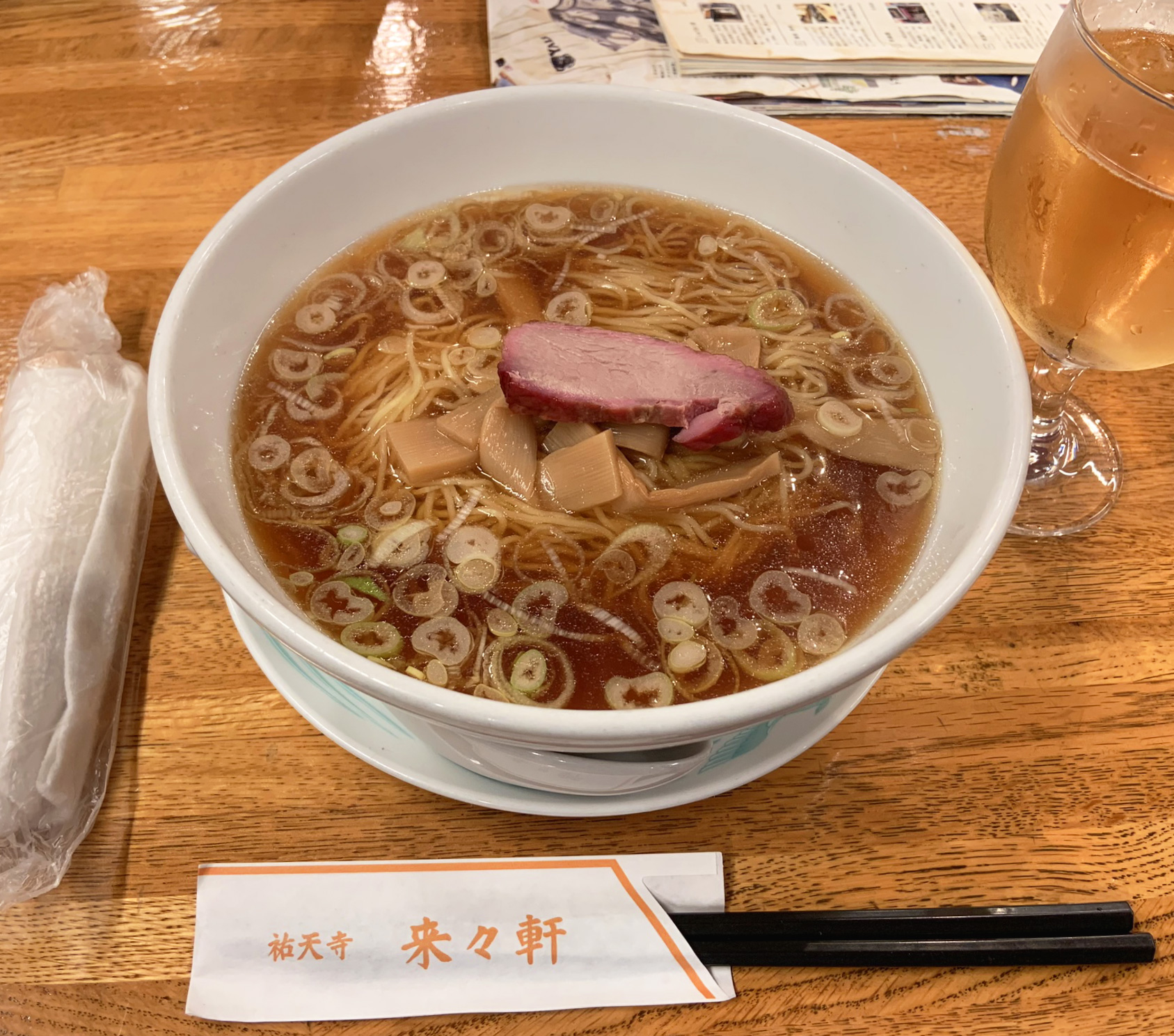 Some insist that the first ramen, i.e. Japanese-style Chinese noodle was served at the restaurant named RAIRAIKEN (1910-1944, 1945-1976) at Asakusa, Tokyo. Although the original RAIRAIKEN does not exist now, Japan has many ramen shops named RAIRAIKEN. One of them, YUTENJI RAIRAIKEN (at Yutenji, Meguro ward, Tokyo) was found by the Cantonese cooking master Fu Xinglei in 1934. Fu was one of the 12 Cantonese cooks who worked at the original RAIRAIKEN at Asakusa in 1910. This photo was taken at YUTENJI RAIRAIKEN on 16th September 2019.